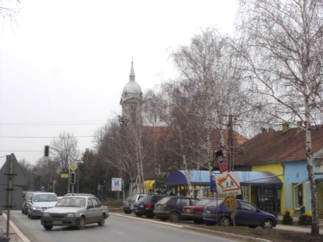 Main street and the Catholic Church in Temerin/ Vojvodina/ Serbia